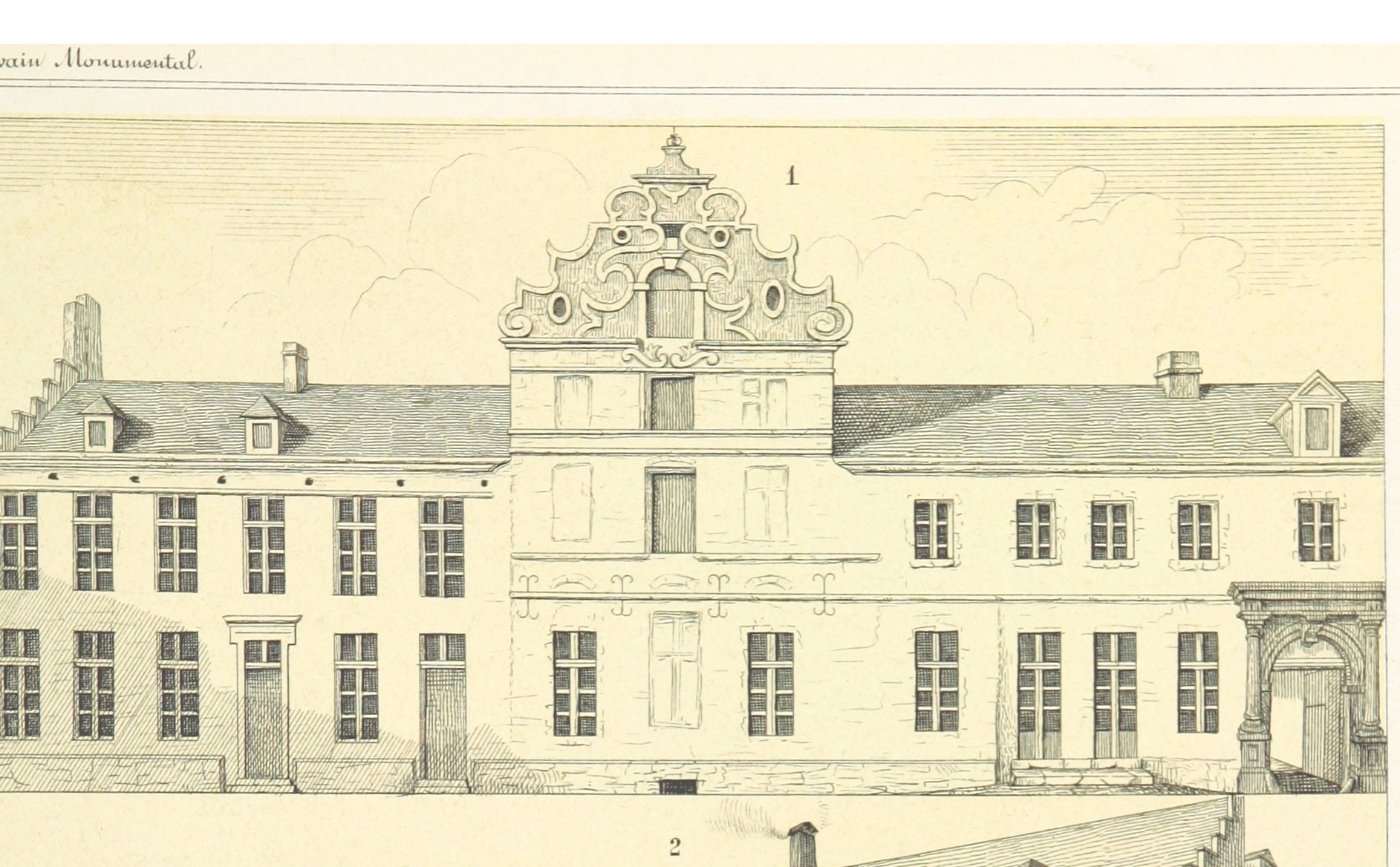 Former university building, the Liège College, in Leuven (Belgium)